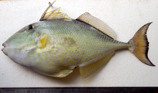 Abalistes stellatus from off New Caledonia. Locality: Near Récif Toombo, Off Nouméa, New Caledonia. Fork Length 430 mm, Weight 1,500 grams. Date 2005/07/02